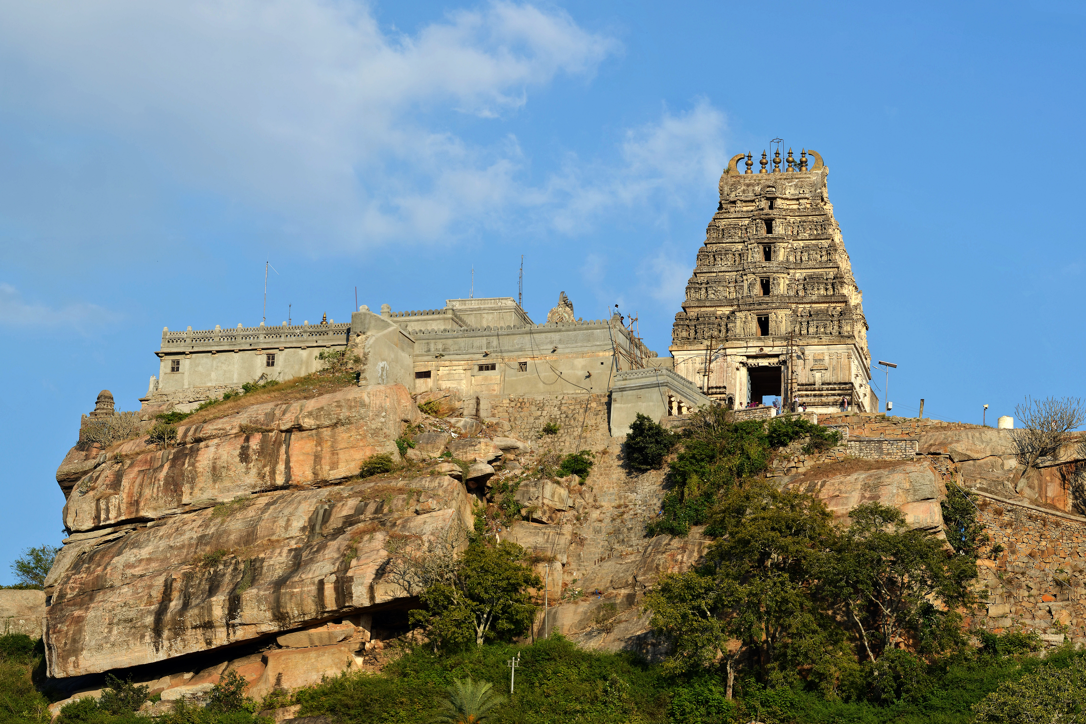 Melukote Temple